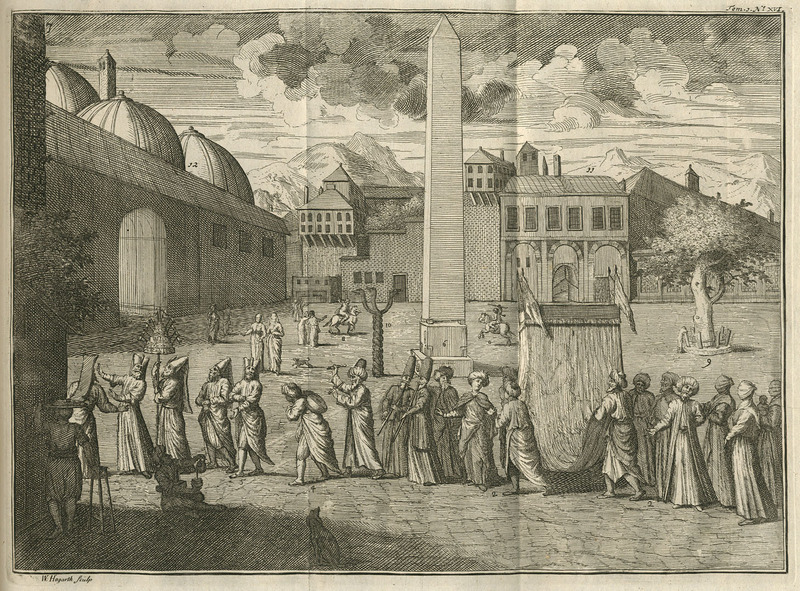 1727 depiction of the At Meydani square at the location of the Hippodrome of Constantinople. Also displayed is the Serpent Column and Obelisk of Theodosius.